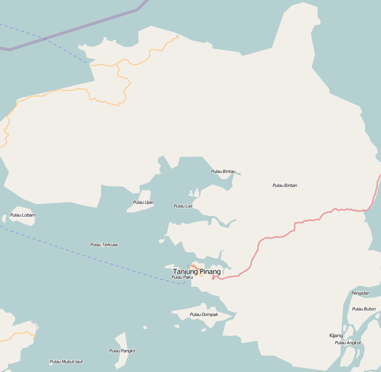 Map of Bintan, Indonesia Geographic limits of the map: N: 1.232° S: 0.808° W: 104.222° E: 104.656°